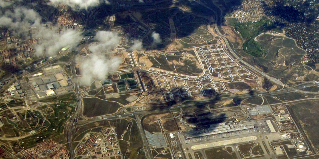 Aerial photograph Aerial photograph of Valdebebas, Madrid, taken in March, 2011.